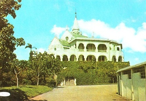 At the top of Penha Hill circa 1955